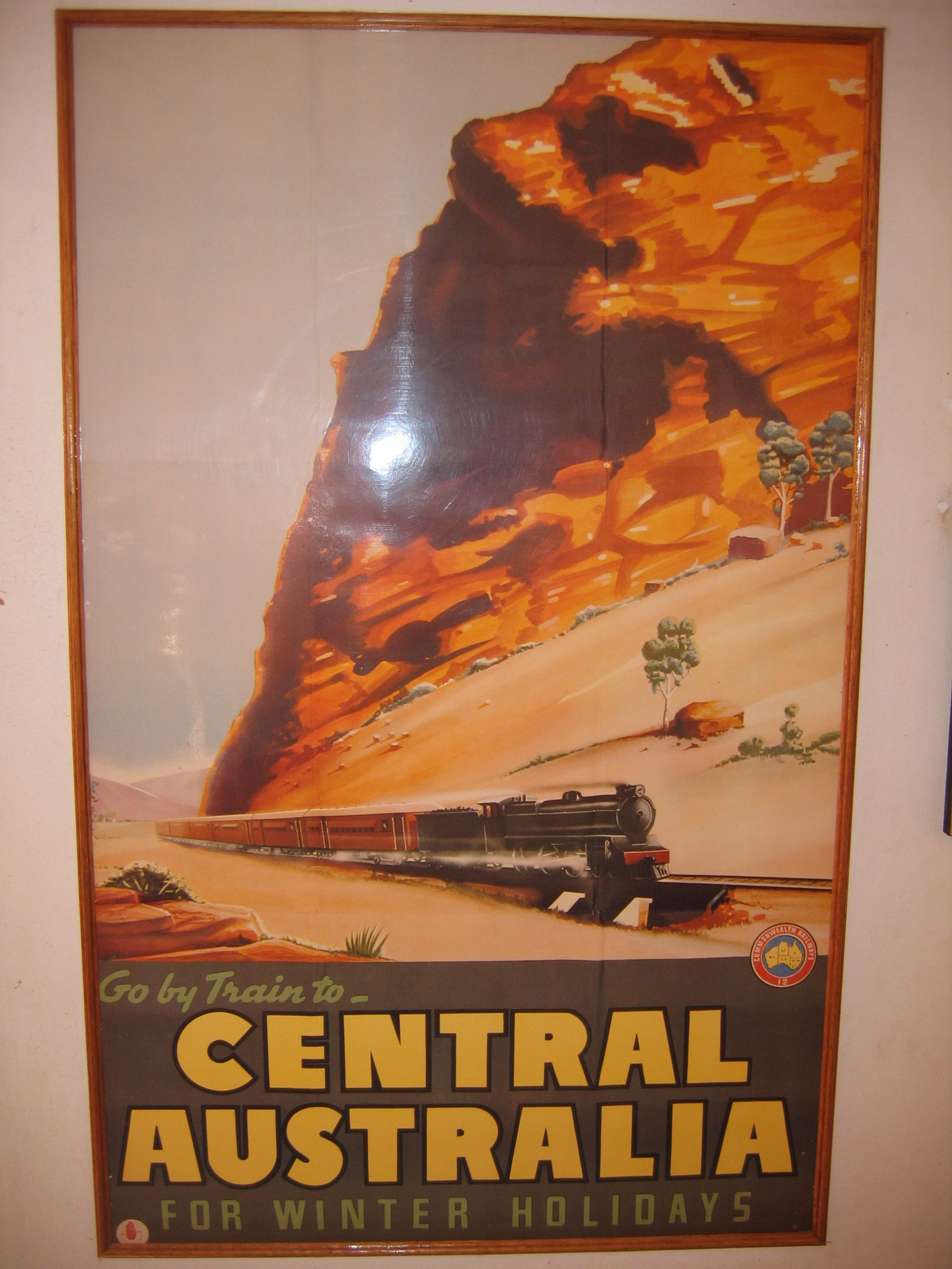 advertising poster for The Ghan, Museum Alice Springs